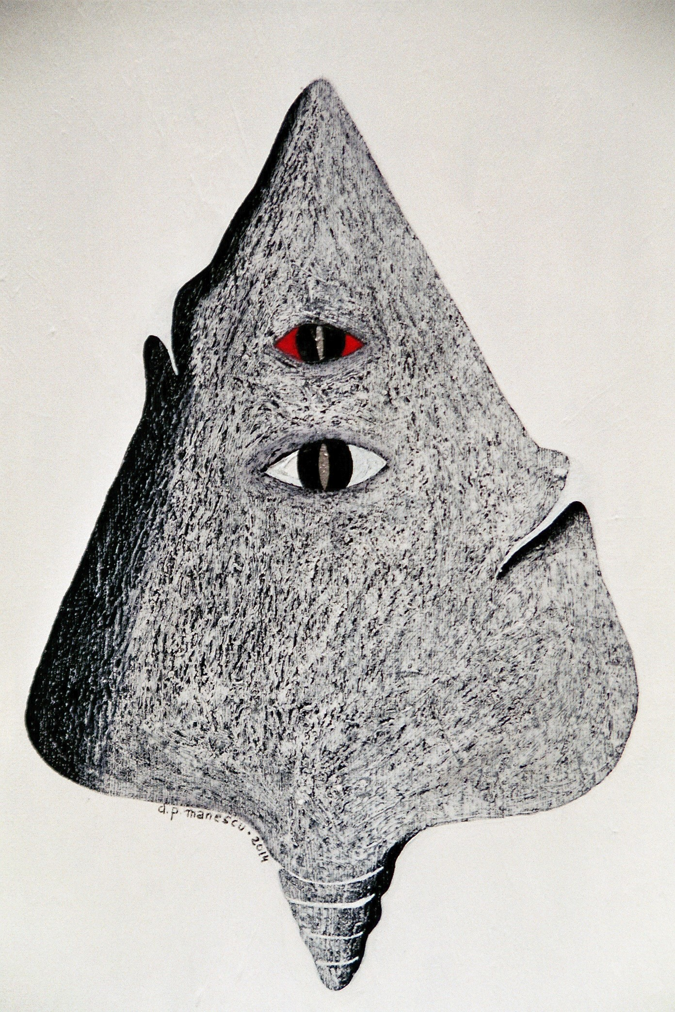 "MIN-PION-BES", photography of a Dan Pero Manescu (Q-ART) painting, Acrylic & Wax Oil on small canvas, 30 x 40 cm